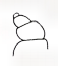 pupoid protoconch (enlarged) of Nisiturris crystallina (Dall & Bartsch, 1906) (synonym: Turbonilla crystallina Dall & Bartsch, 1906); Pyramidellidae